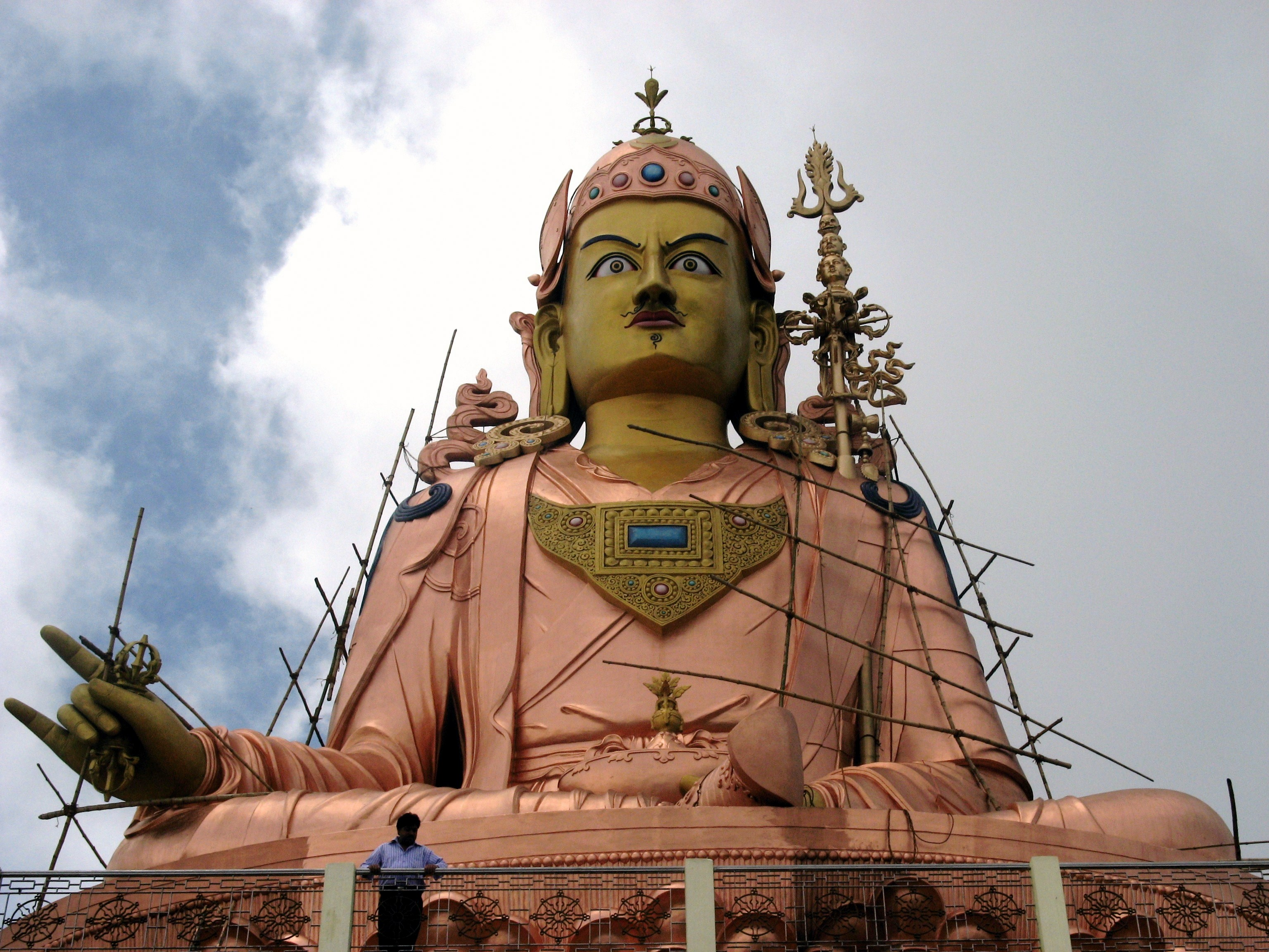 the biggest statue of guru padmasambhava (guru rinpoche) in the world... this statue stands at 135 ft. tall...and is located at sandruptse, a small hilltop 7kms. from the town of namchi in south sikkim padmasambhava is revered as the guardian saint of the state of sikkim, as he spent a lot of time meditating at various parts of the state on his way to lhasa...he is also said to have blessed the entire state from the town of tashiding